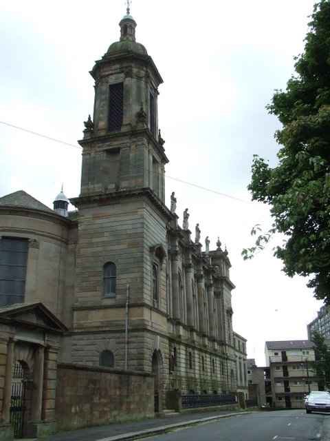 Glasgow Evangelical Church. On Cathedral Square. See also 939992.